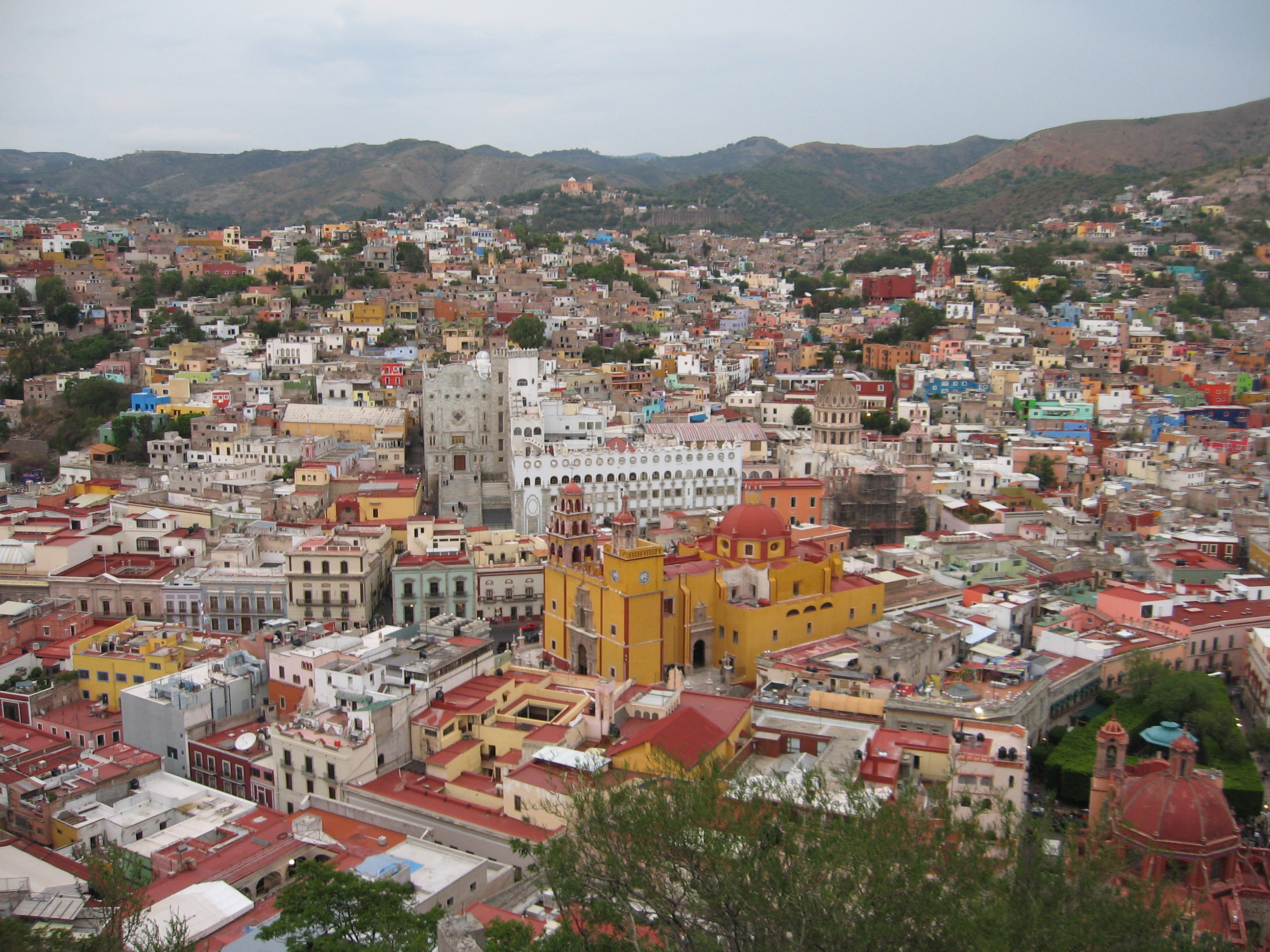 Guanajuato